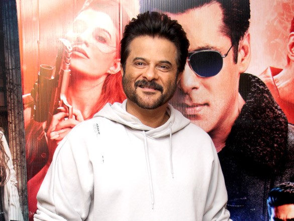 Anil Kapoor